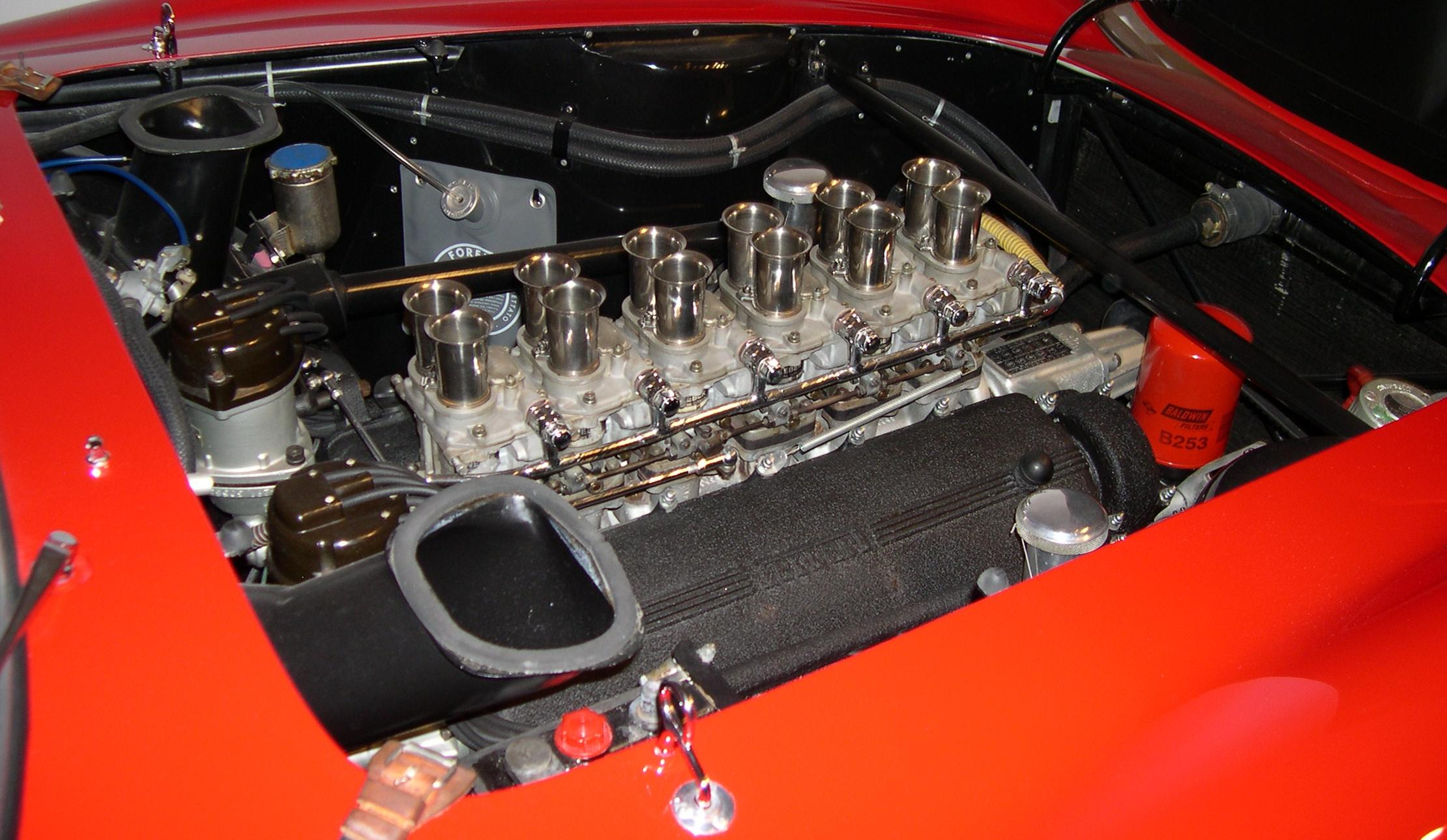 1962 Ferrari 250 GTO 250 Colombo engine From the Ralph Lauren collection on display at the Boston Museum of Fine Arts. Photo taken in 2005. Source: Photo by User:Sfoskett